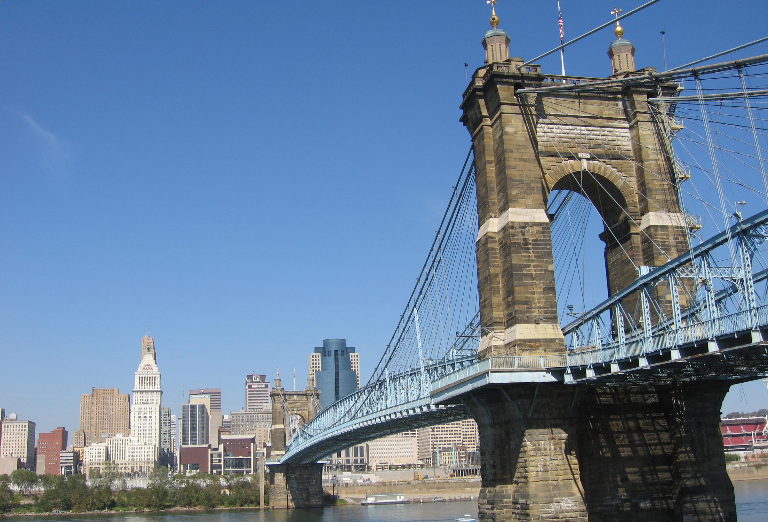 The John A. Roebling Suspension Bridge spans the Ohio River between Cincinnati, Ohio and Covington, Kentucky